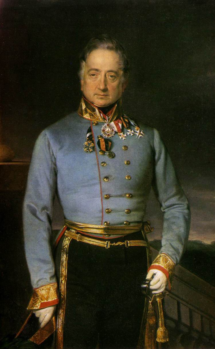 Old Welden